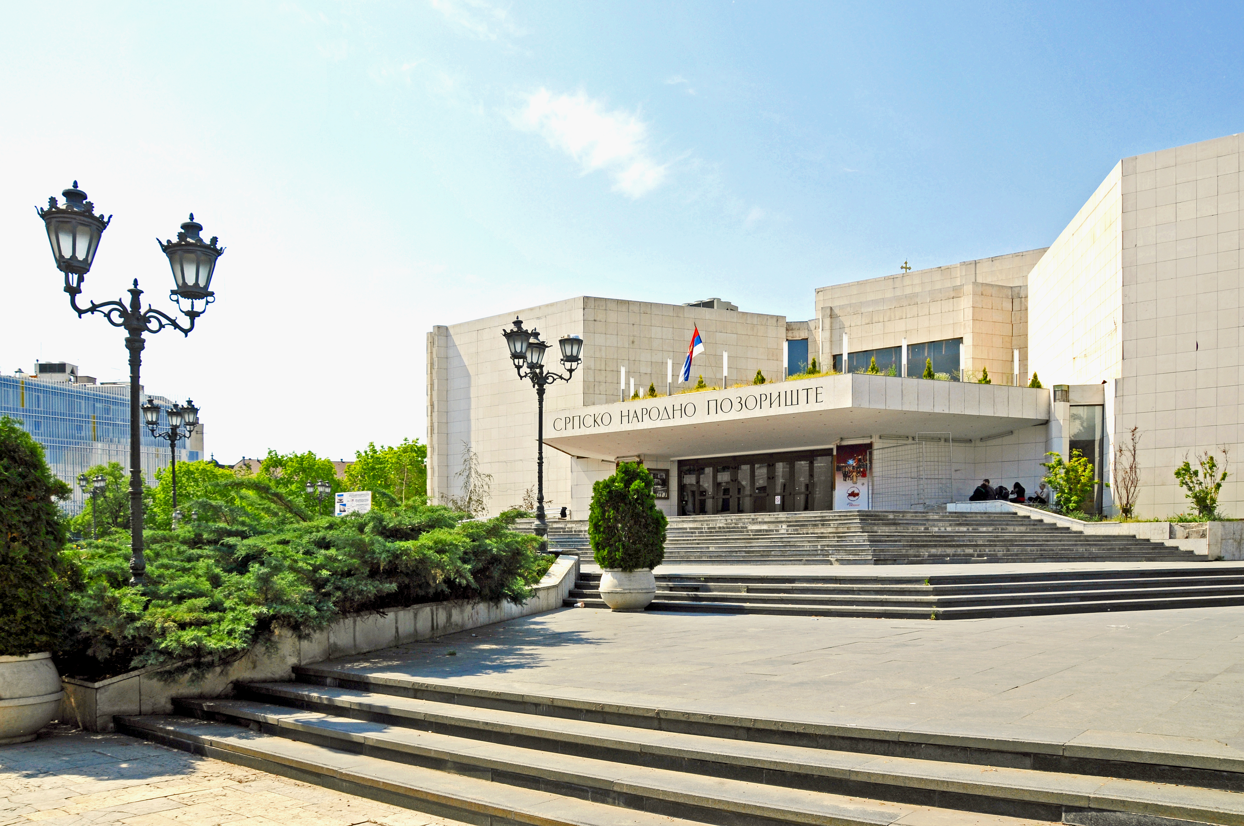 The Serbian National Theatre is one of the major theatres of Serbia. It was founded in 1861 during a conference of the Serbian National Theatre Society, composed of members of the Serbian Reading Room. The current building of the theatre was opened in March 1981.